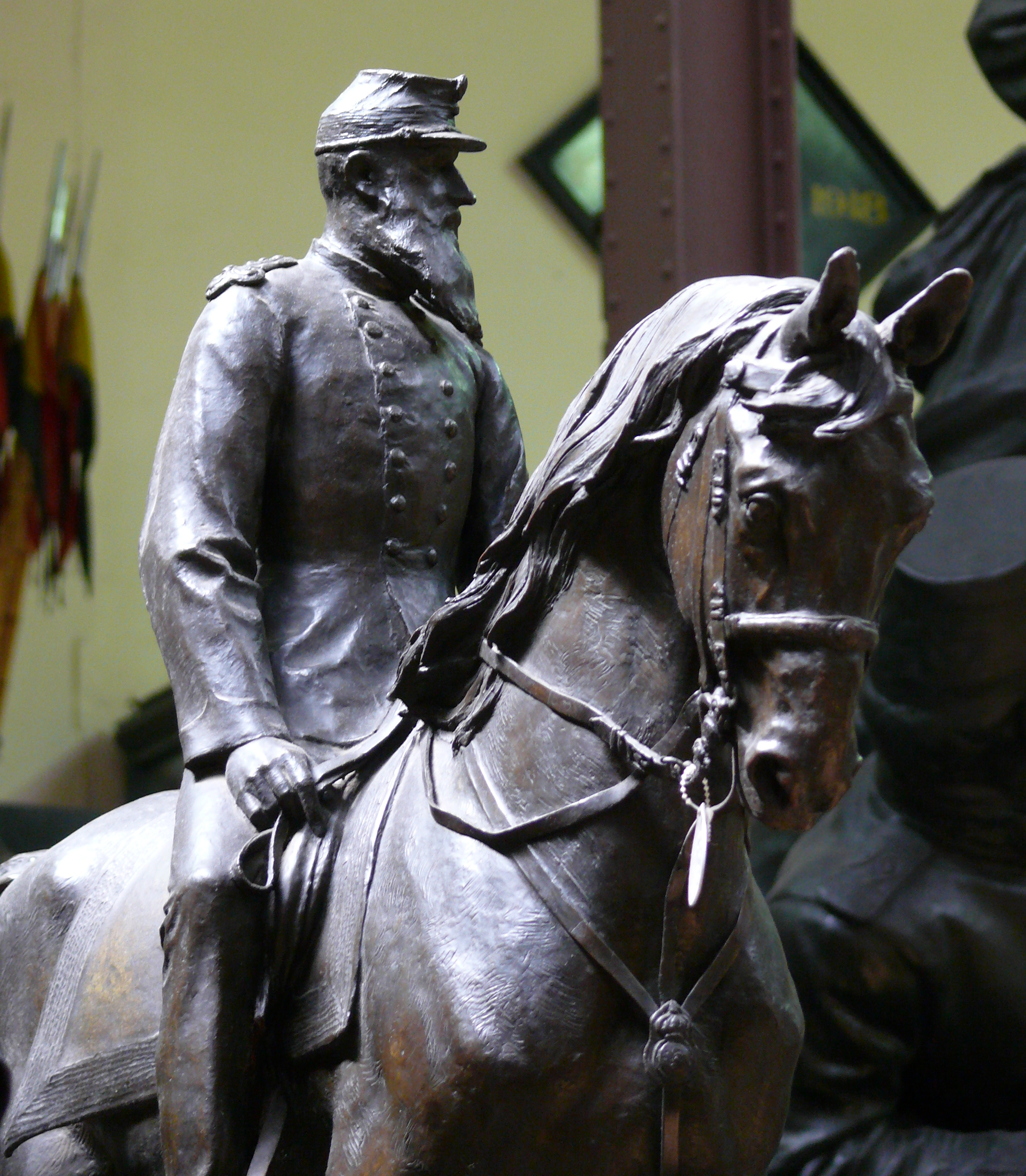 Statuette figuring King Leopold II (other details unknown) in the Royal Military Museum at the Jubelpark, Brussels.